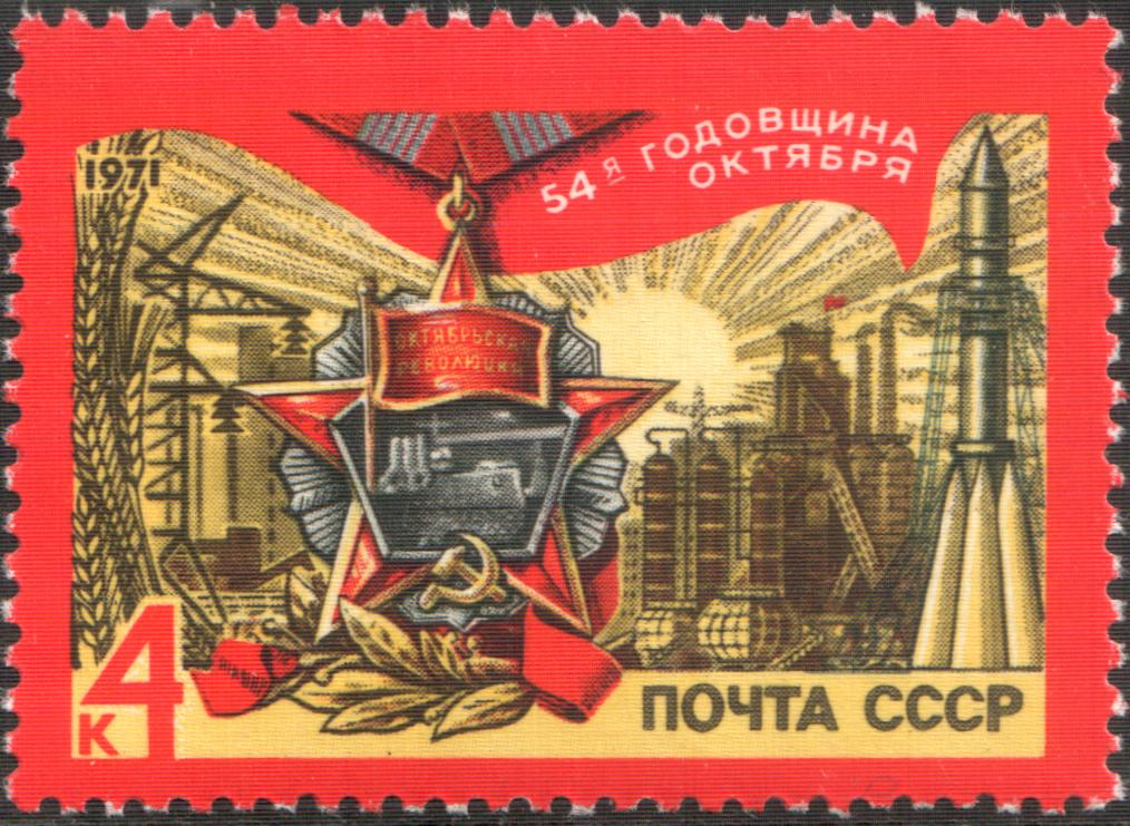 A USSR stamp